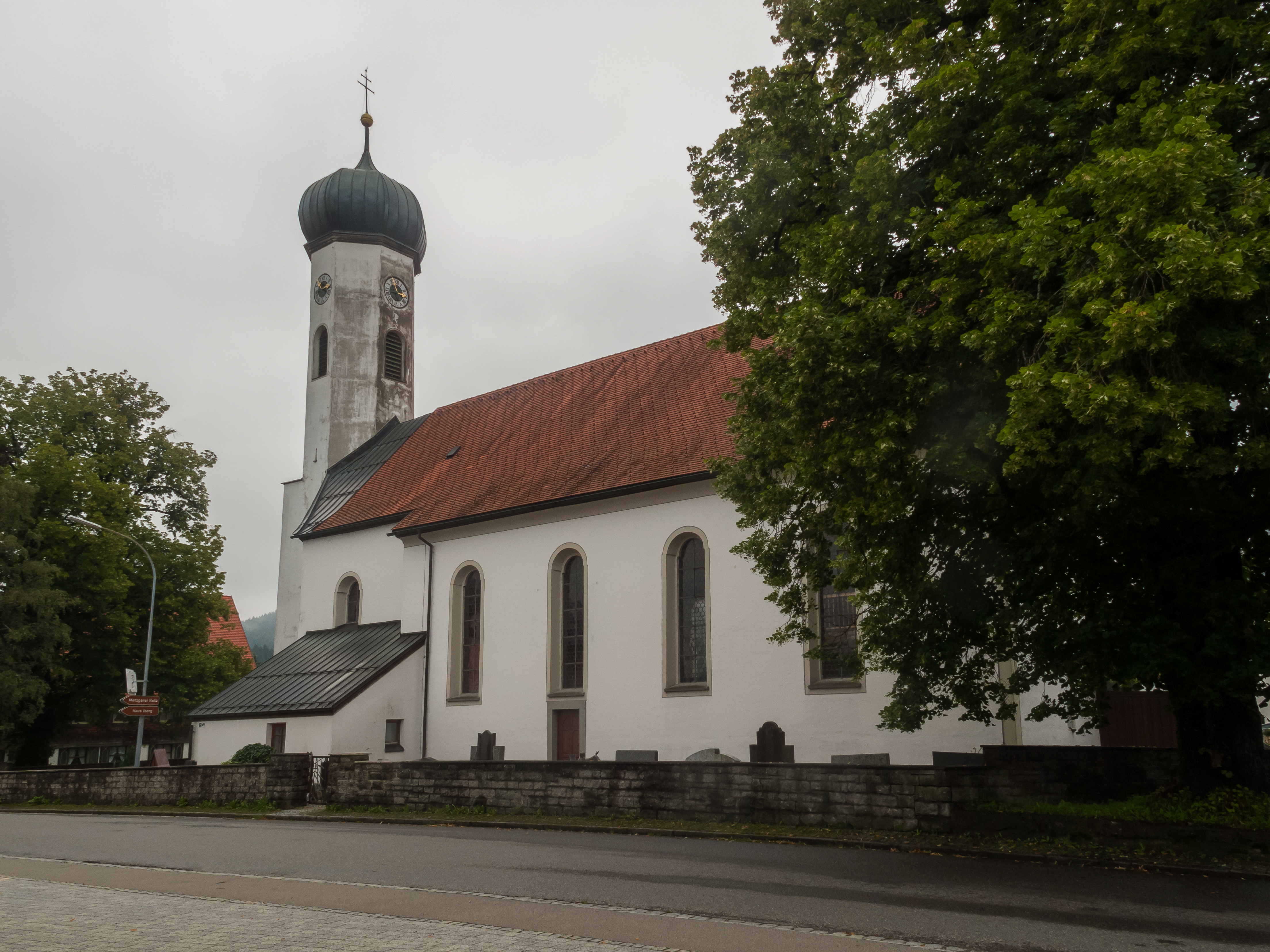 Maierhöfen, church: katholische Pfarrkirche Sankt GebhardThis is a photograph of an architectural monument.